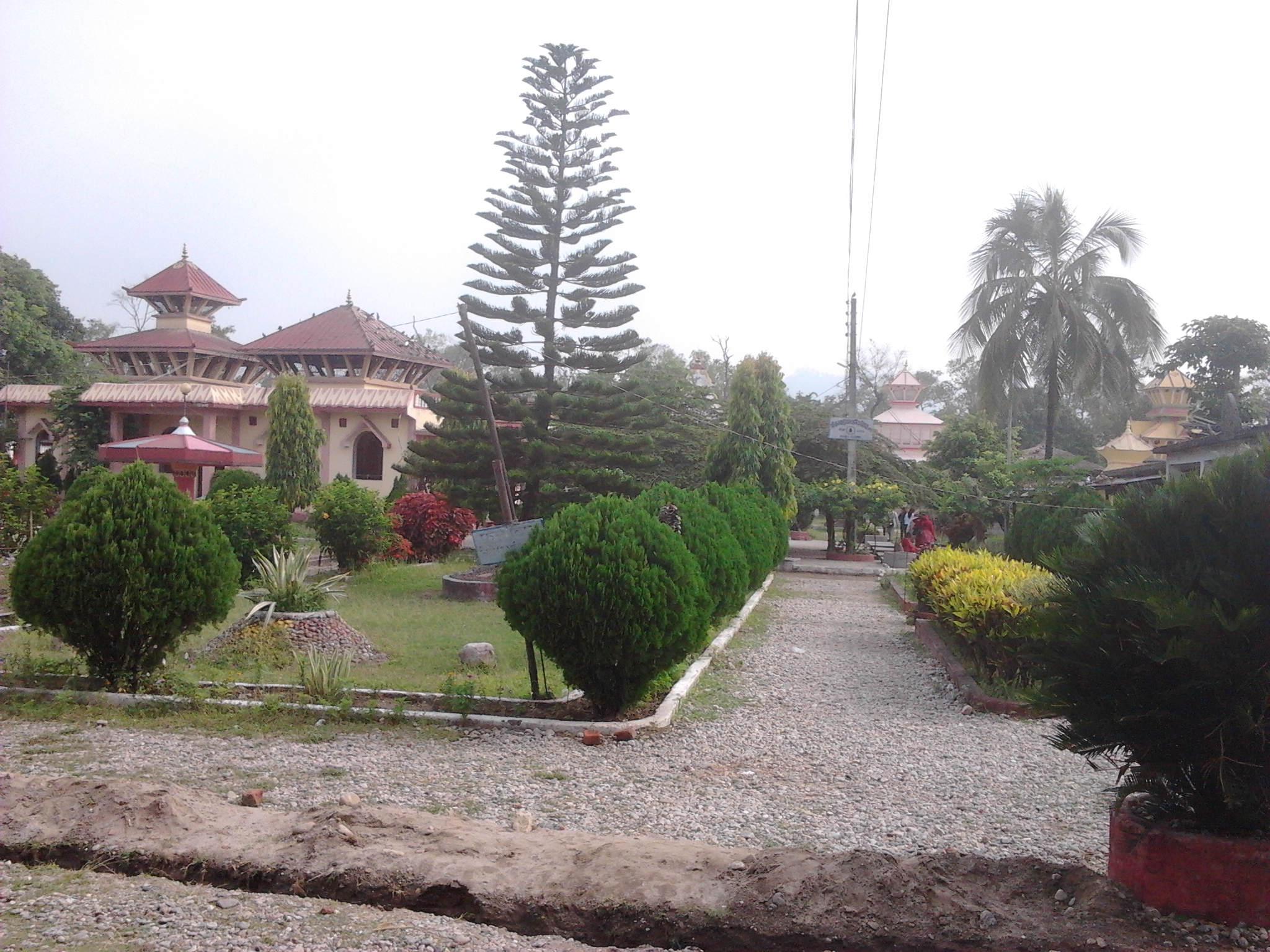 Kankai Dham, Surunga, Jhapaनेपाली: कन्काईधाम